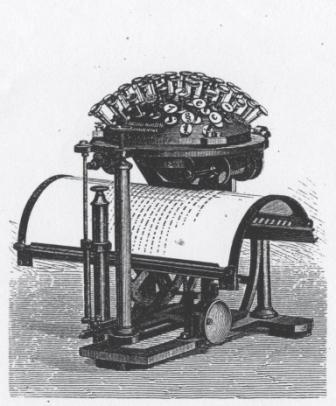 The Hansen Writing Ball, the first typewriter sold commercially, invented by Rasmus Malling-Hansen around 1865, first manufactured in 1870. This was a model from 1878.